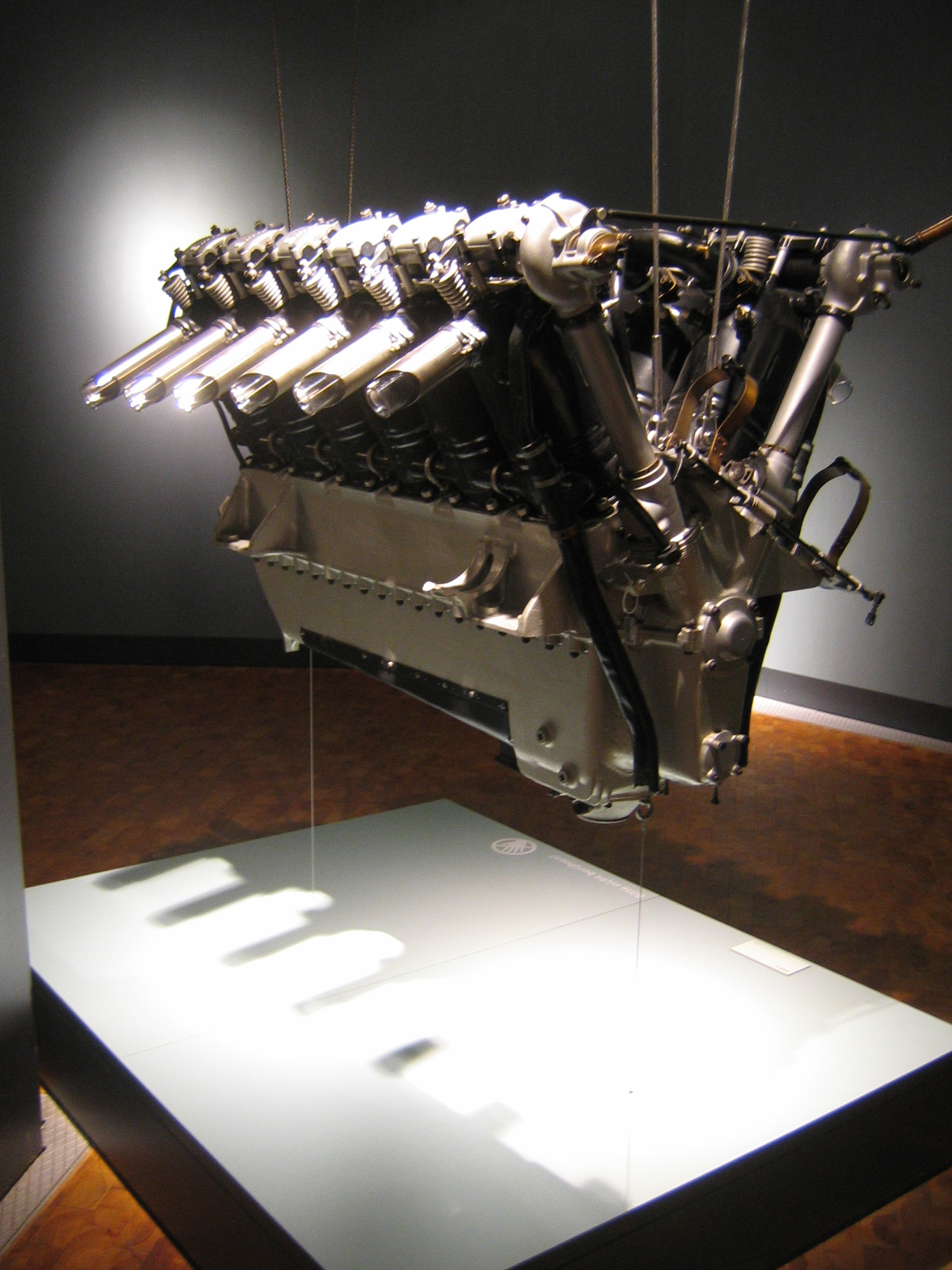 BMW VI aircraft engine on display at the Technikmuseum, Berlin